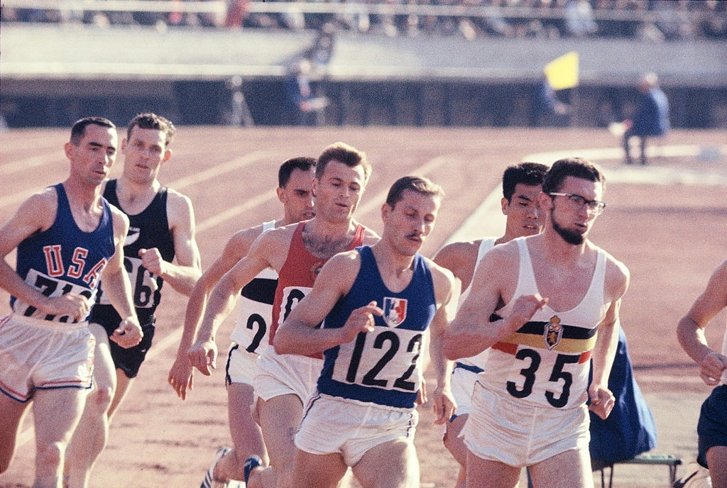 Athletes compete in the Men's 800m Semi-final at the National Stadium during the Tokyo Olympic on October 15, 1964 in Tokyo, Japan. Left-right: Jerry Siebert, Peter Snell, Valery Bulyshev, Maurice Lurot, Jacques Pennewaert